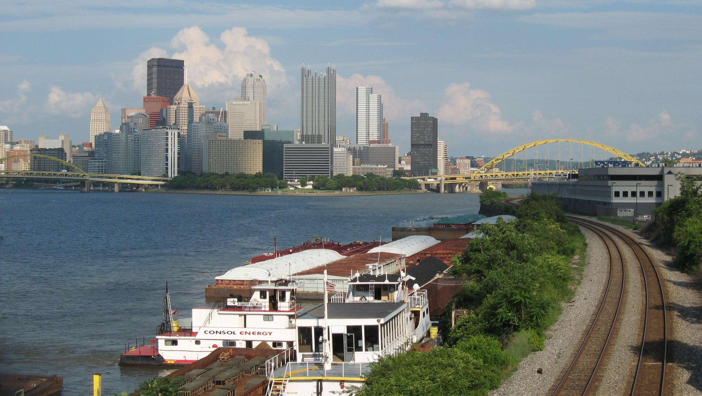 Pittsburgh skyline from the West End Bridge, with barges and railroad tracks